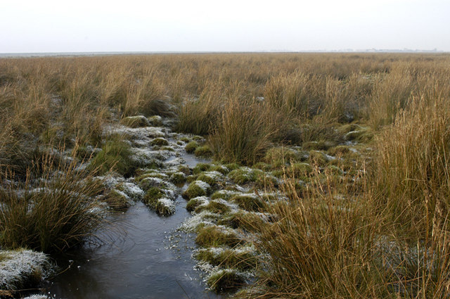 Cockerham Marsh in winter